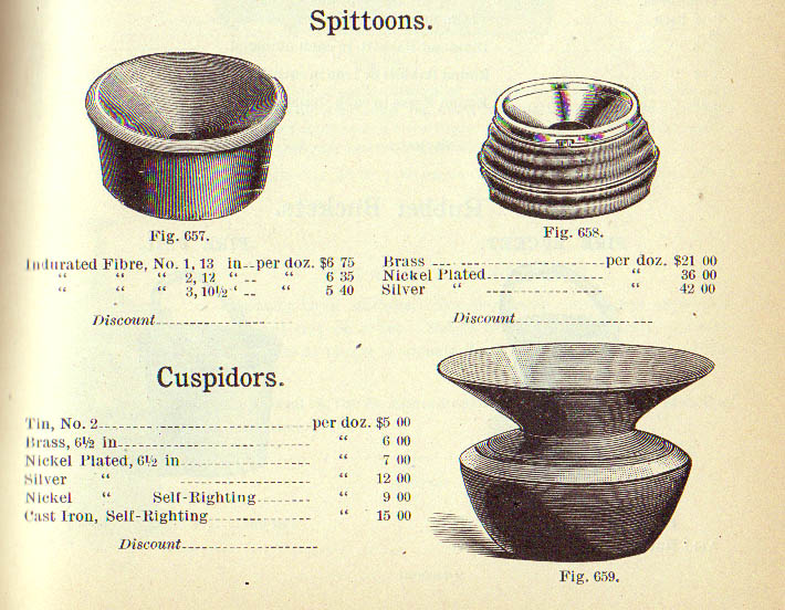 Catalogue page illustrating spittoons / cuspidors for sale, 1893. From Handlan Company catalogue.